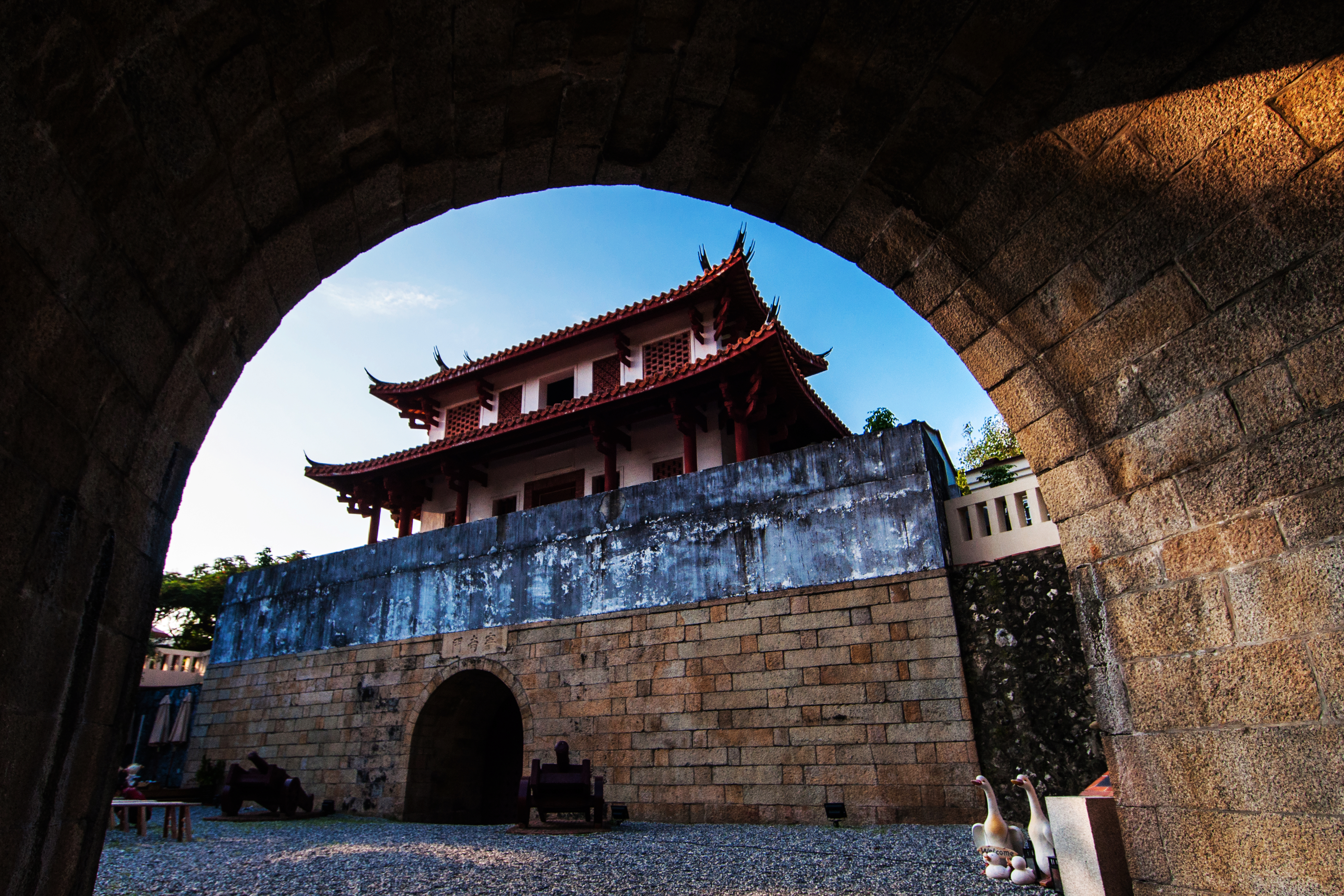 The Great South Gate, Tainan.